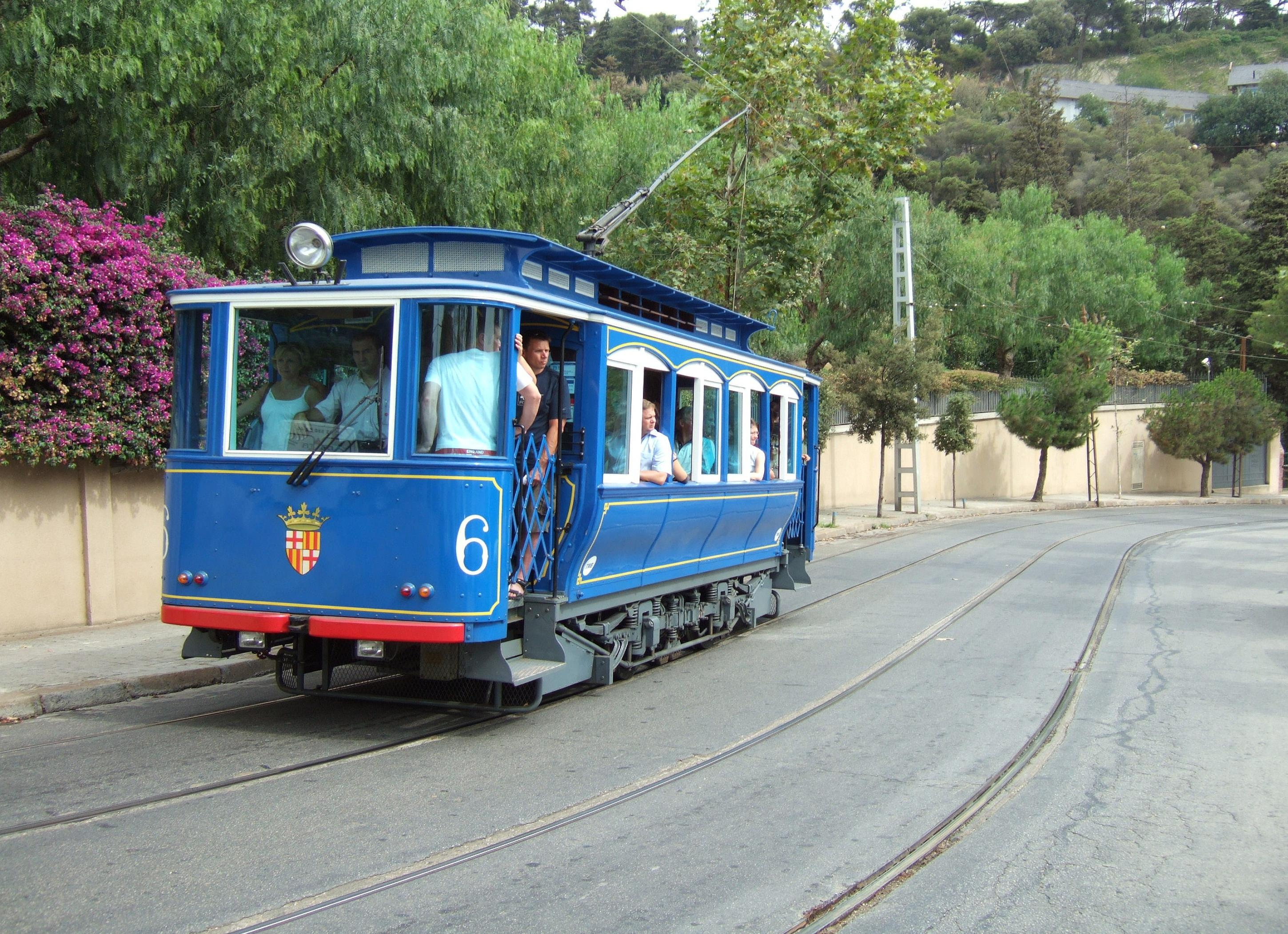 Photo: Trams aux Fils.